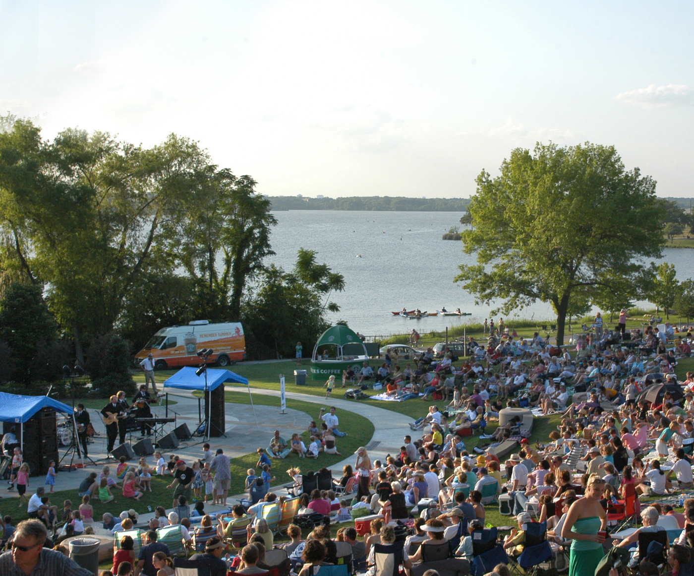 This is an image of a concert at the Dallas Arboretum